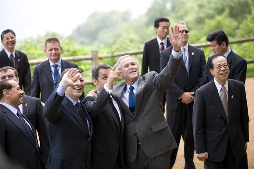 Leaders of Group of Eight pose for photos in Tōyako Town, Abuta District, Hokkaidō on July 8, 2008. Original description: President George W. Bush joins President Nicolas Sarkozy of France, and Jose Manuel Barroso, President of the European Union, as they wave to hotel staff Tuesday, July 8, 2008, following the G-8 family portrait at the Windsor Hotel Toya Resort and Spa. Looking on are Italy's Prime Minister Silvio Berlusconi, lower left, President Dmitriy Medvedev of Russia, left, and Prime Minister Yasuo Fukuda of Japan, right, host of the 2008 Summit.